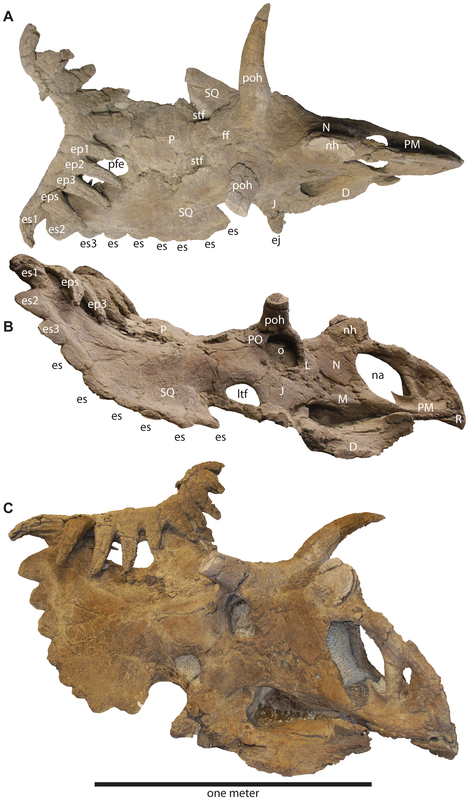 UMNH VP 17000, articulated holotype skull of Kosmoceratops richardsoni n. gen et n. sp. In oblique (A), dorsal (B) and right lateral (C) views. Scale bar represents one meter. Abbreviations: D, dentary; ep, epiparietal position 1–3; eps, epiparietosquamosal; es, episquamosal; ff, frontal fontanelle; J, jugal; L, lacrimal; ltf, laterotemporal fenestra; M, maxilla; N, nasal; na, naris; nh, nasal horncore; o, orbit; P, parietal; pfe, parietal fenestra; PM, premaxilla; PO, postorbital; poh, postorbital horncore; R, rostrum; sq, squamosal; stf, supratemporal fenestra.